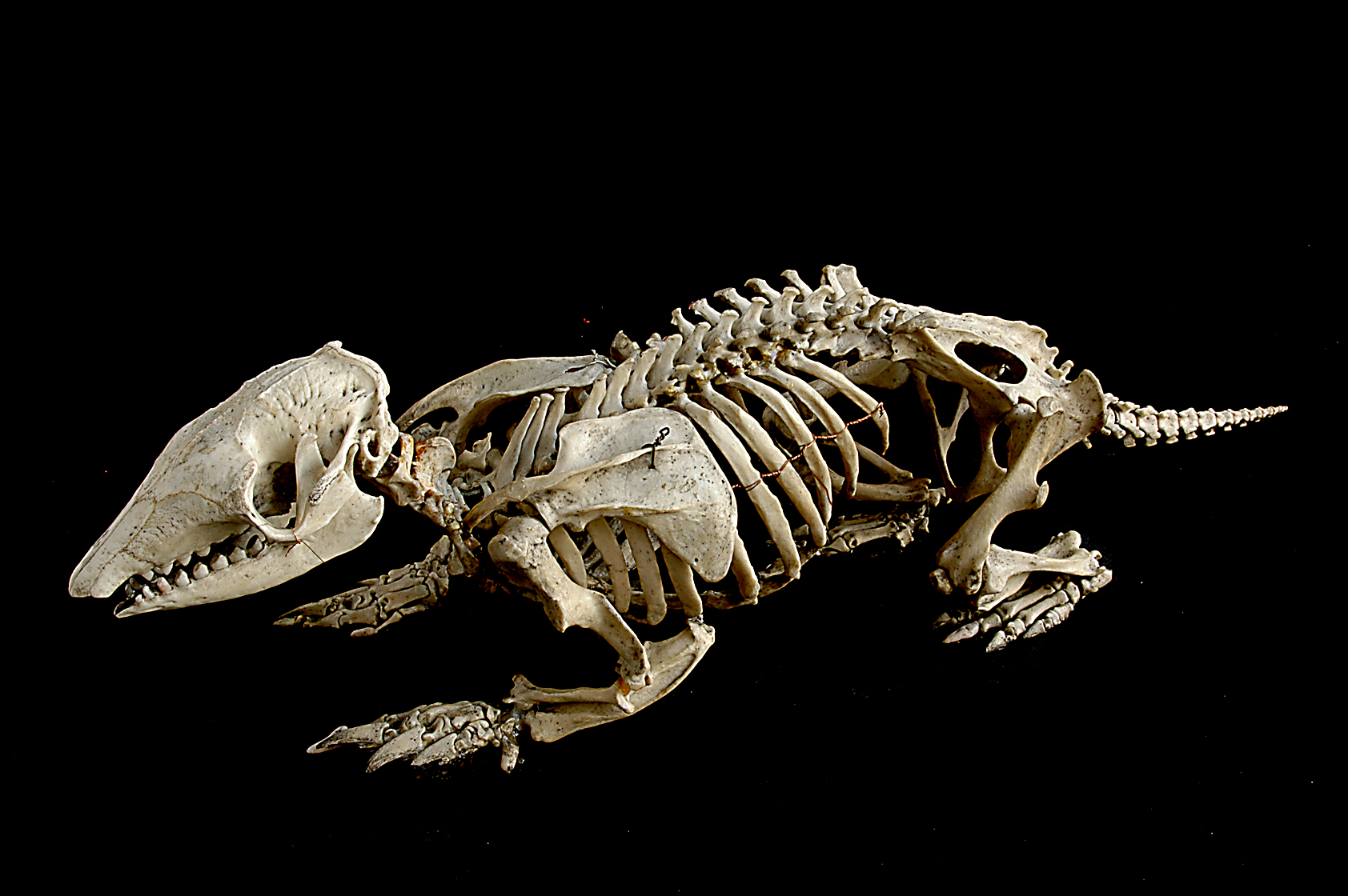 Skeleton of Six-banded Armadillo, Euphractus sexcinctus; collection of th Dpt. of Zoology at the National University of Ireland in Galway